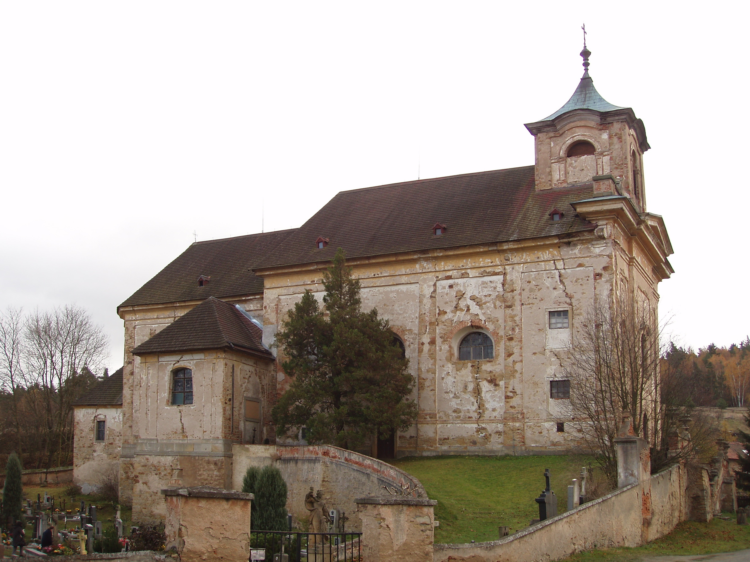 St. Barbara church in Manětín, Plzeň Region, Czech Republic